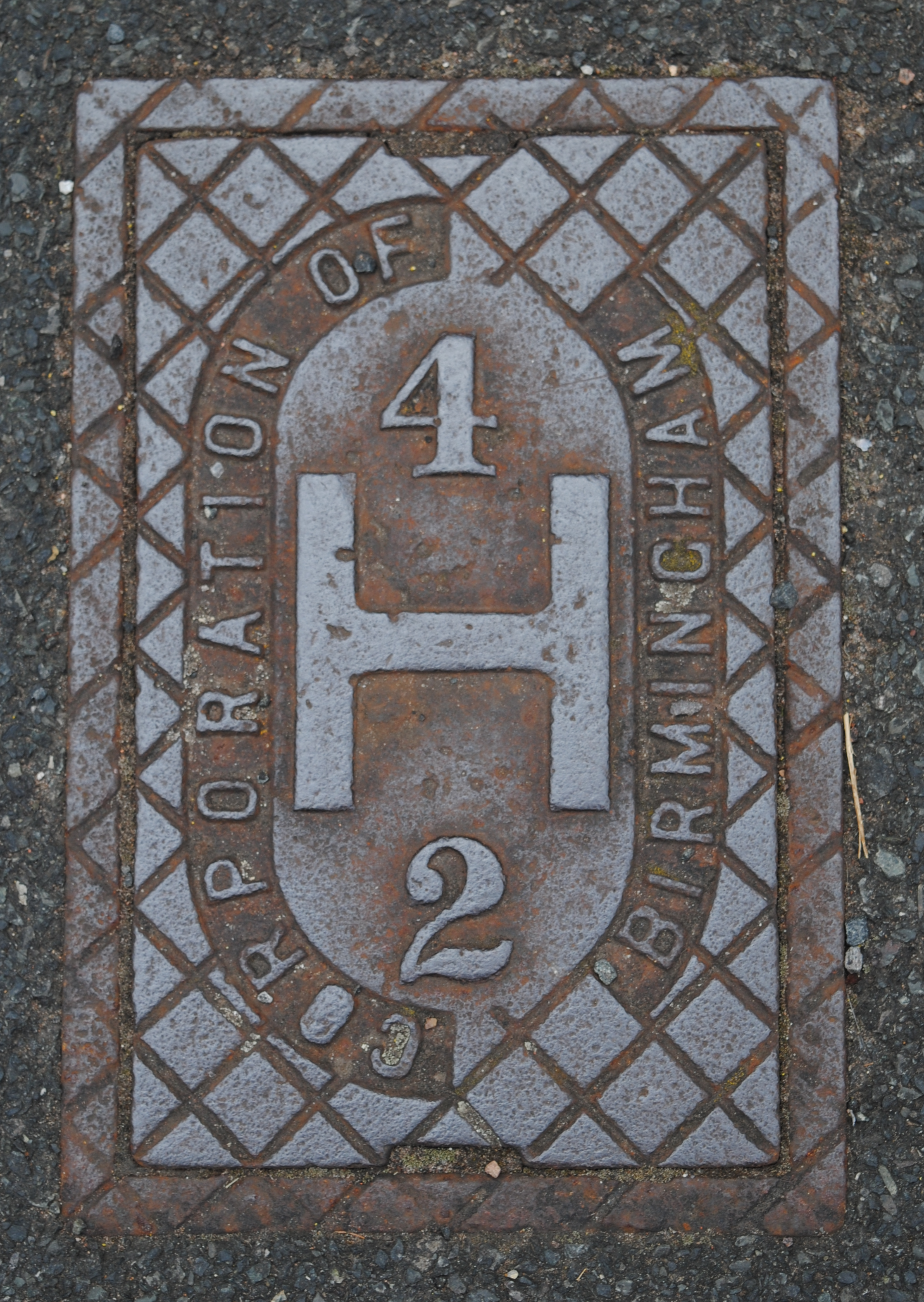 Fire hydrant cover in Cramlington Road, Great Barr, Birmingham, England, lettered "Corporation of Birmingham", with a capital letter "H" and the figures "4" over "2". The nearby houses were built in the 1920s. As of 2020, the water is sulplied by Severn Trent Water.